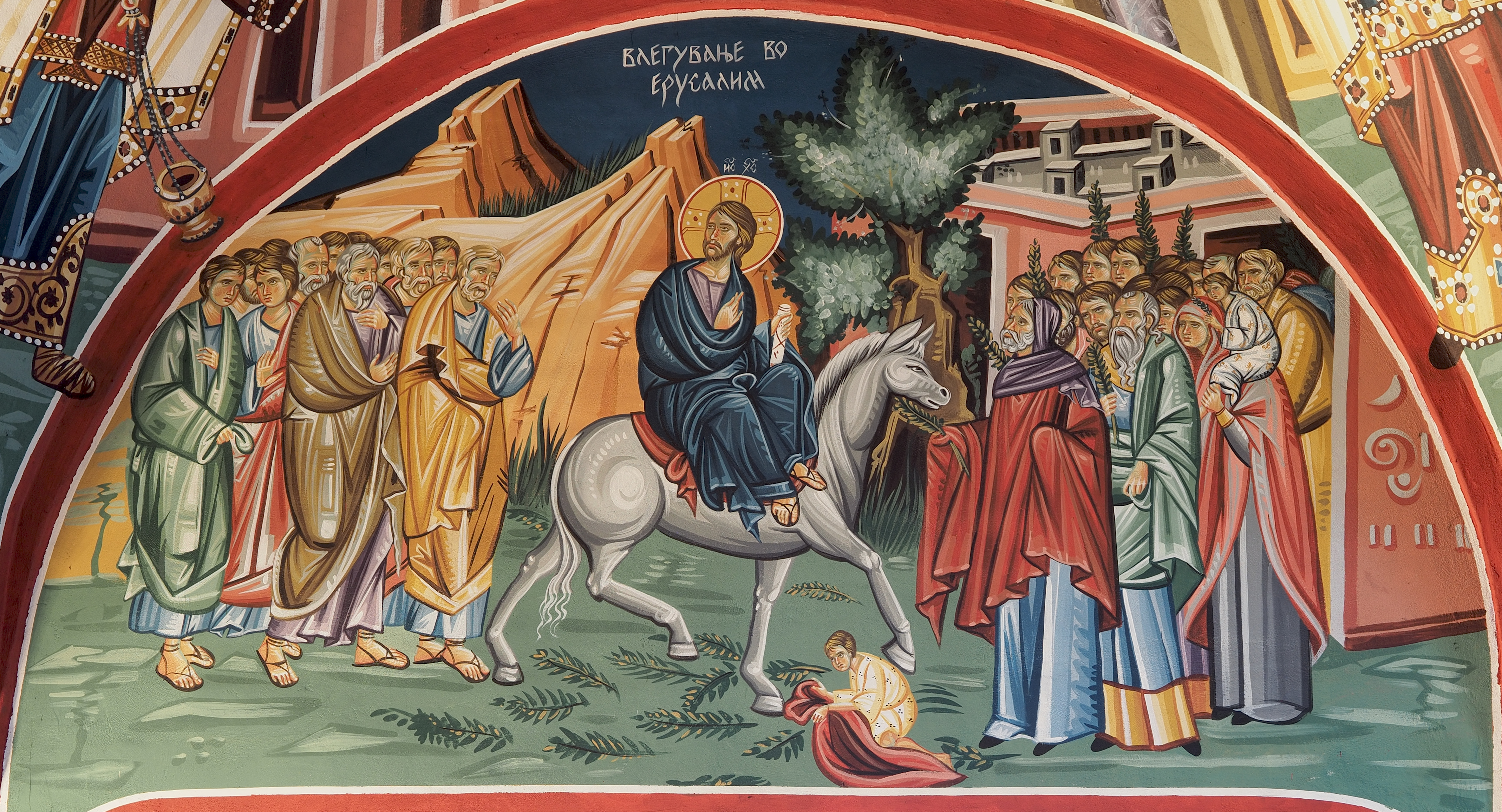 Triumphal entry of Jesus into Jerusalem, Nativity of the Theotokos Church (Bitola), Macedonia. ВЛЕГУВАЊЕ ВО ЕРУСАЛИМ - Cyrillic text in Macedonian alphabet which mean Entry into Jerusalem. This photograph was taken with an Olympus E-M1